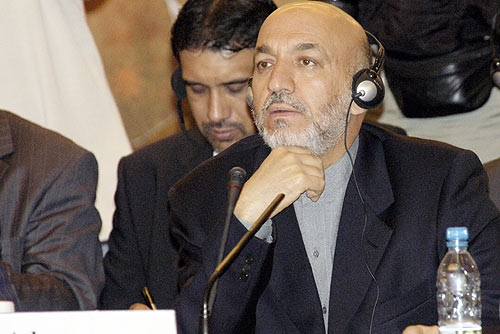 Afghan President Hamid Karzai at a summit of the Shanghai Cooperation Organisation in Tashkent, Uzbekistan